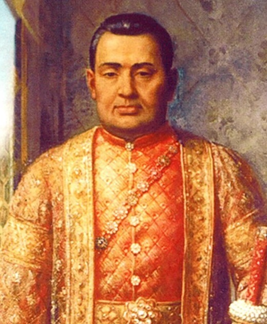 Crop of portrait of King Nangklao which is displayed in the Chakri Mahaprasad Hall at the Grand Palace, Bangkok. Portrait created during the reign of King Chulalongkorn, meaning it was created no later than 1910 (identity of the creator is unknown to the uploader). Image taken from web page of the Public Relations Department, Region 3